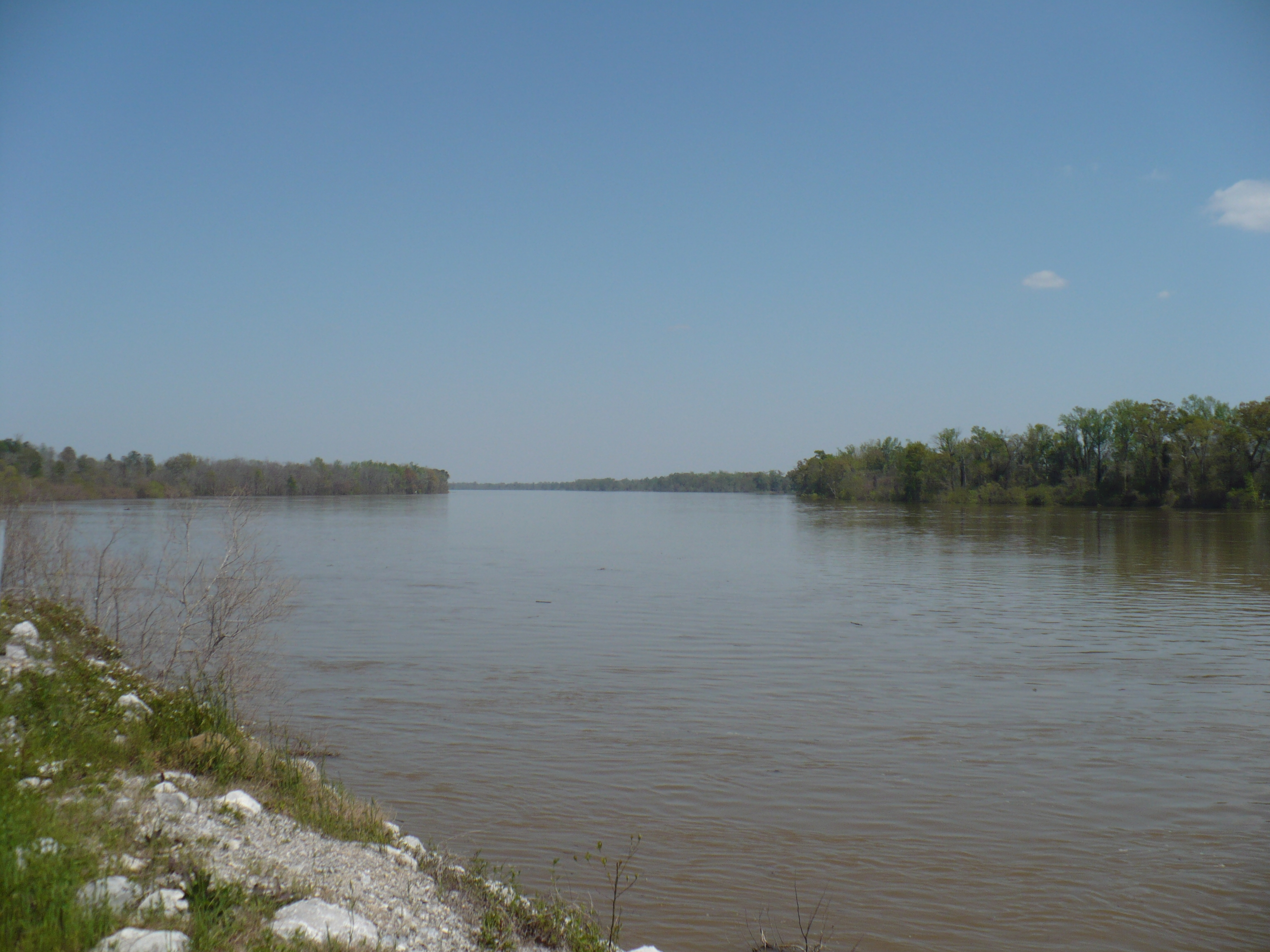 The Mobile River, taken from the site of the former Fort Stoddert near Mount Vernon, Alabama.